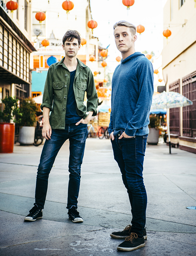 Coast Modern photographed on July 6, 2015 in Los Angeles, California.